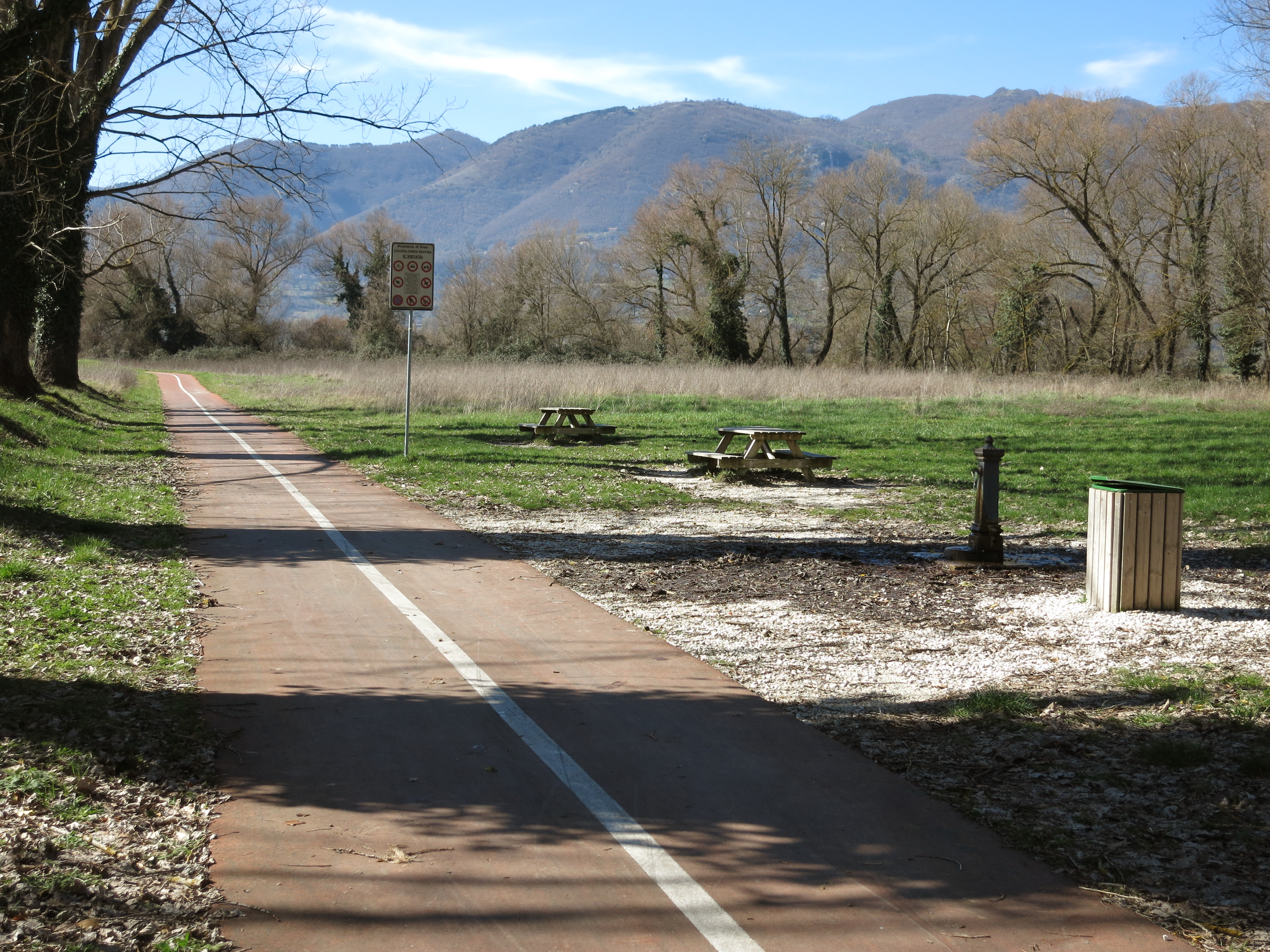 Ciclovia della Conca Reatina, bikeway in the province of Rieti (Lazio, Italy)